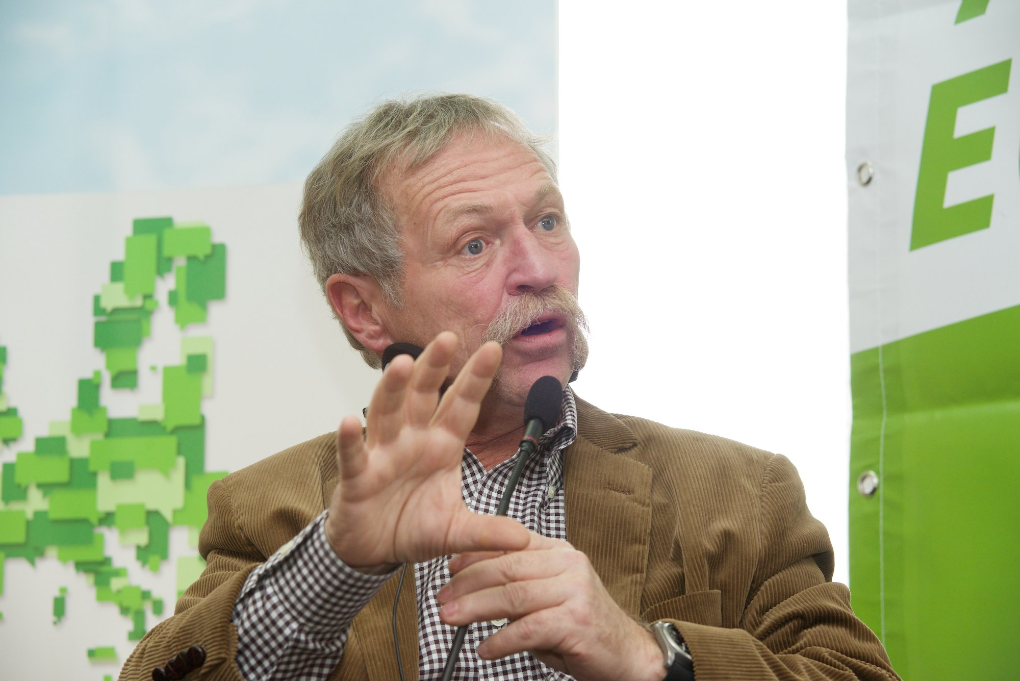 GreenPrimary en Madrid